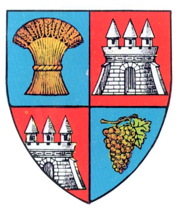 Interwar coat of arms of Arad County, Kingdom of Romania.